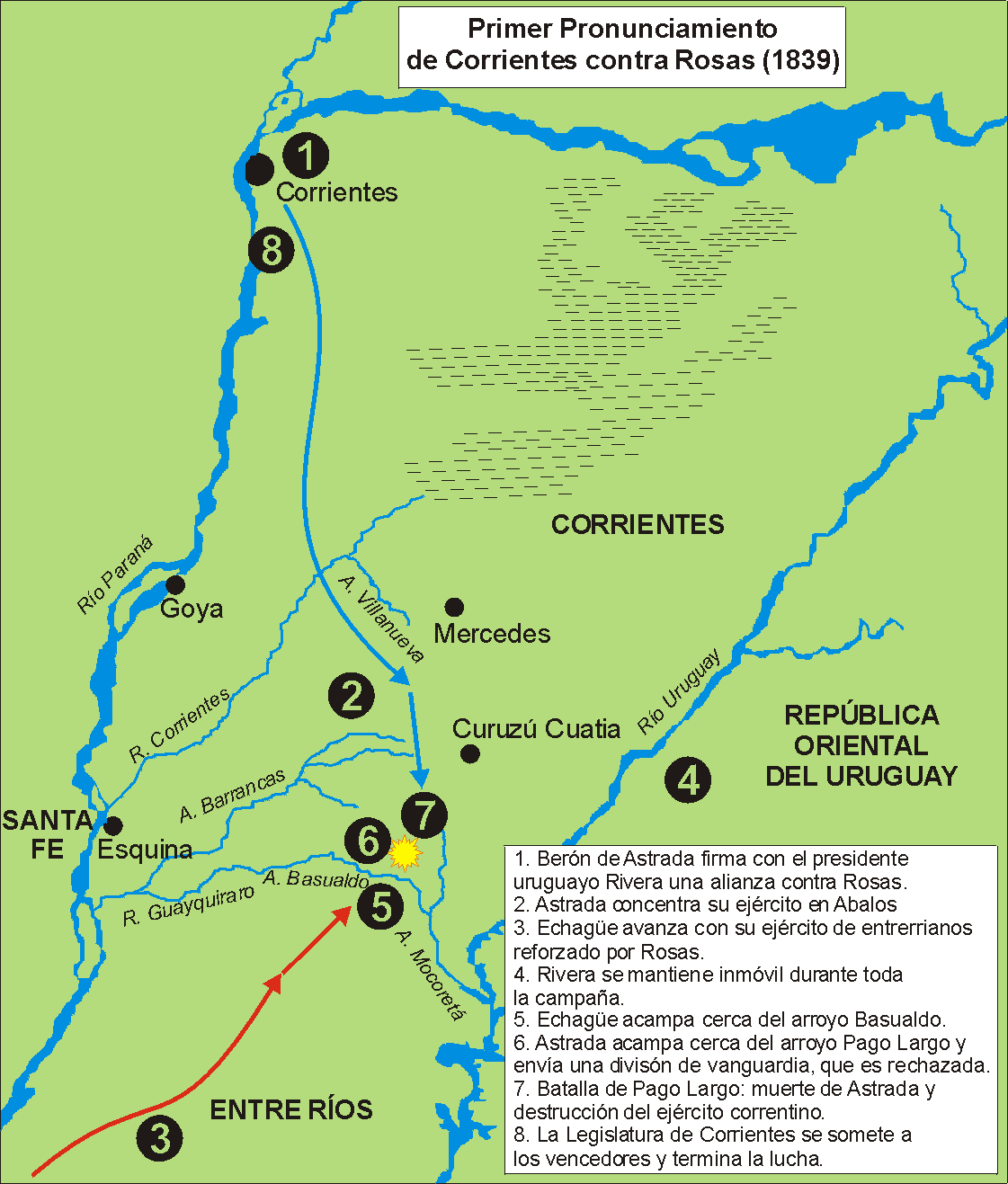 Argentina civil wars. 1st Corrientes Campaign (1839)